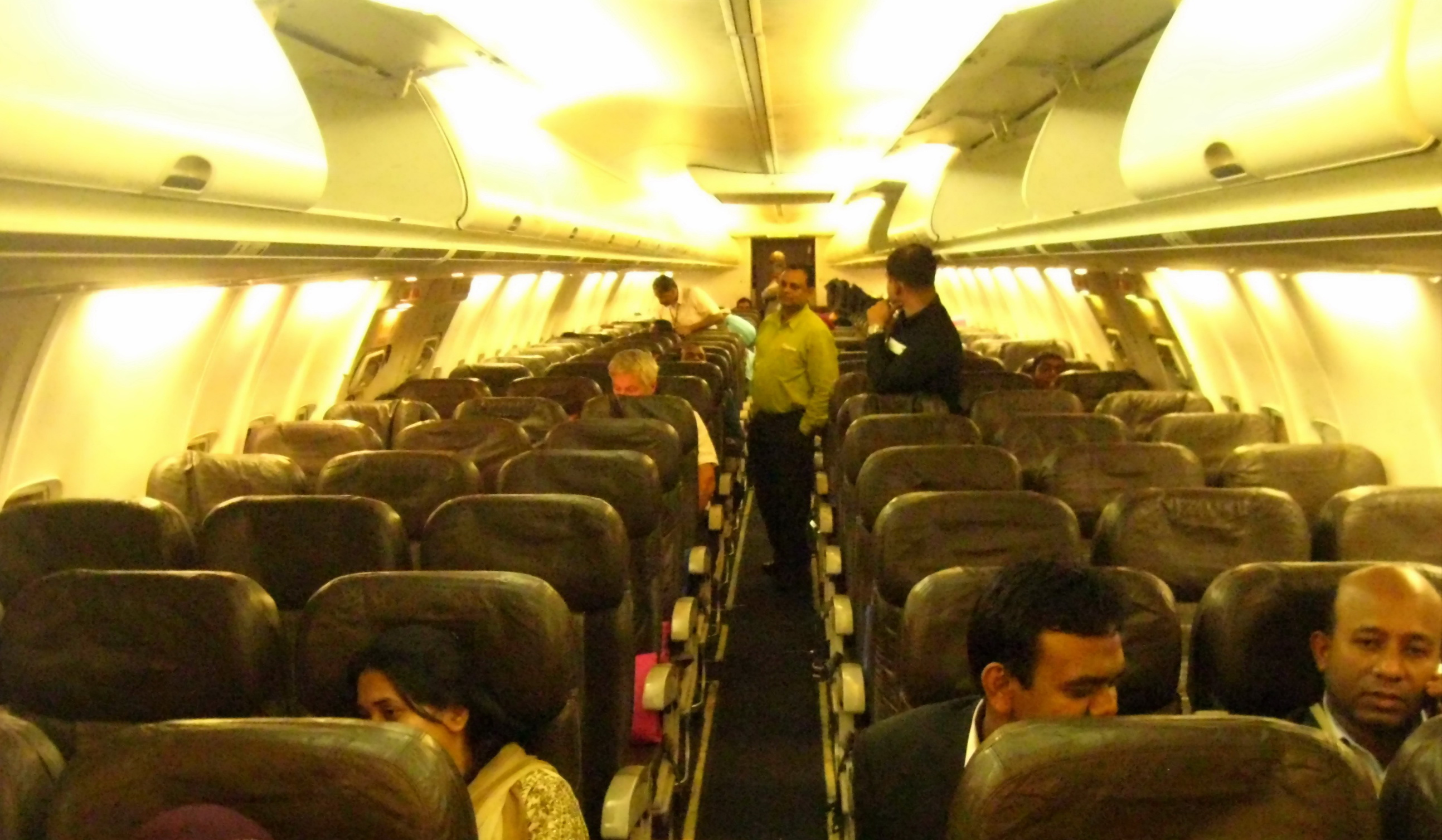 Costlier leather seats are used in Biman's Boeing 737-800 (S2-AFL). Besides luxury, two main advantages of using leather seats are easy-cleaning and prevention of soaking of spilt liquid through padding.